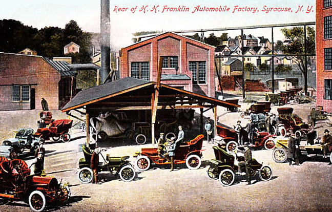 Rear of H. H. Franklin Factory in Syracuse, New York - 1913